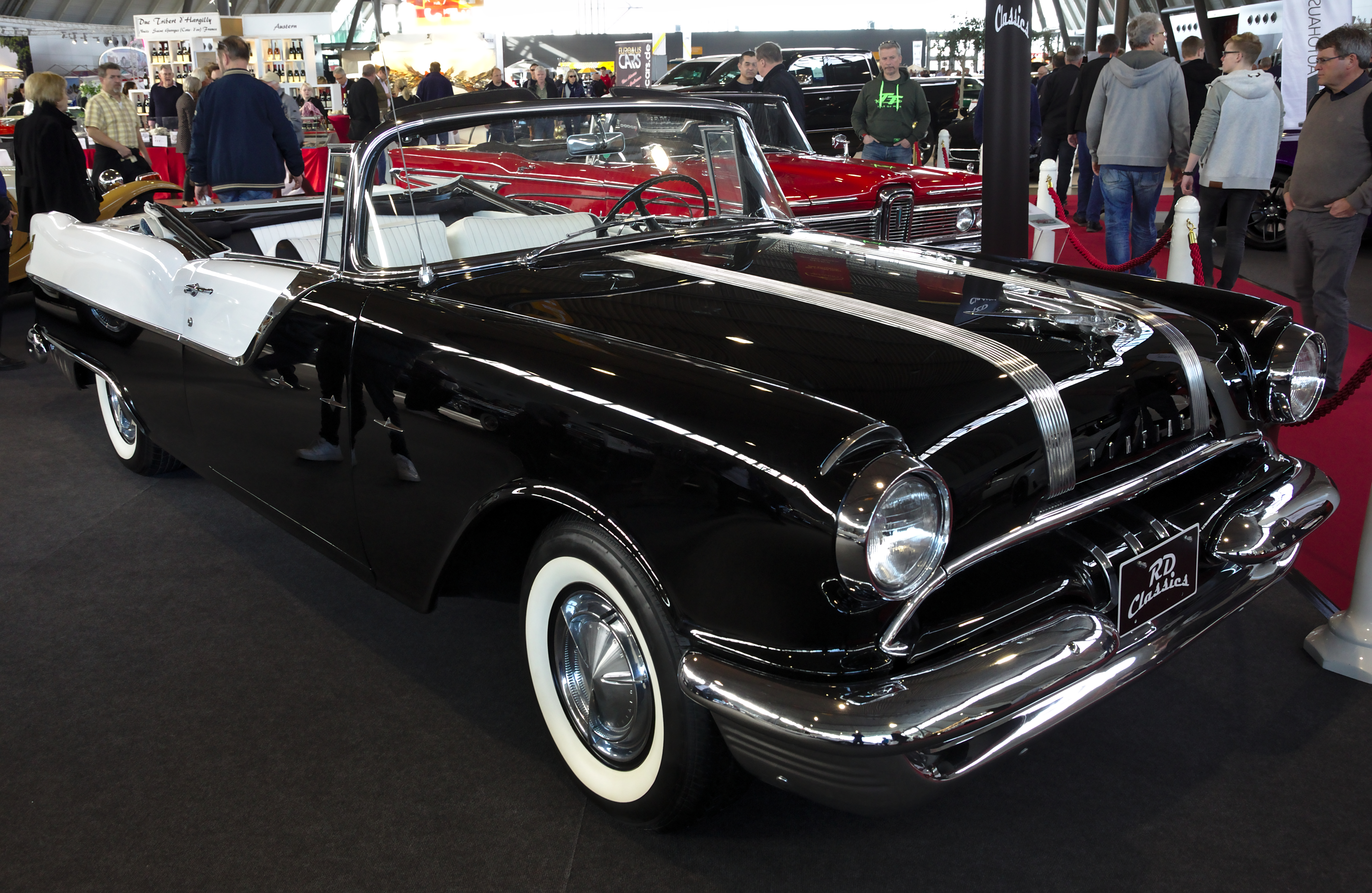 Pontiac Star Chief Convertible at Retro Classics 2019